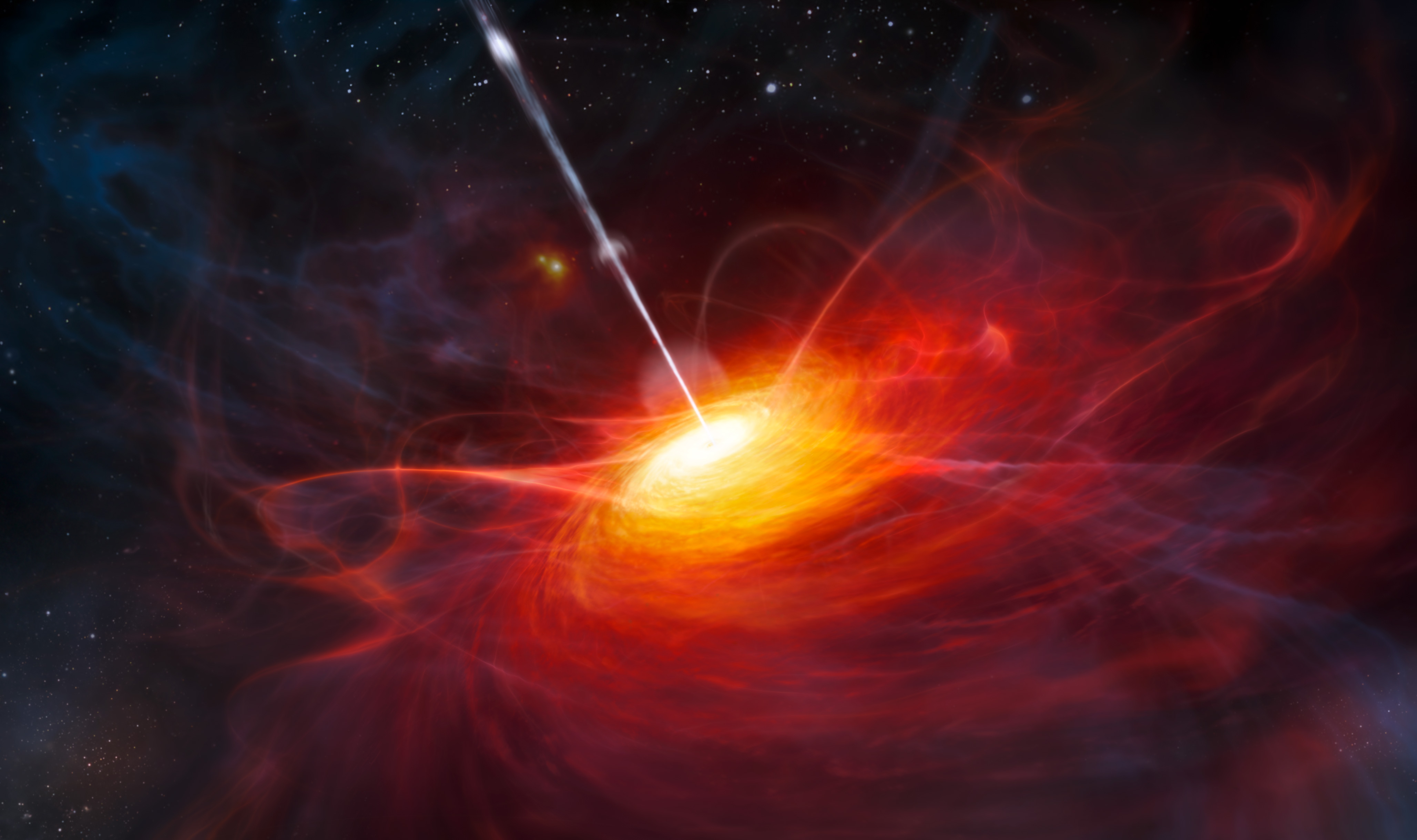 This artist’s impression shows how ULAS J1120+0641, a very distant quasar powered by a black hole with a mass two billion times that of the Sun, may have looked. This quasar is the most distant yet found and is seen as it was just 770 million years after the Big Bang. This object is by far the brightest object yet discovered in the early Universe.